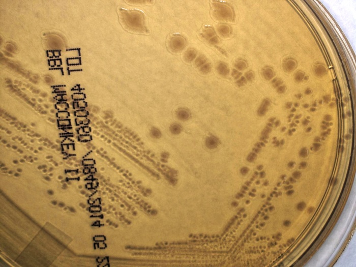 Yersinia pseudotuberculosis colonies on MacConkey-Agar (MAC) agar, showing a negative result for lactose fermentation.